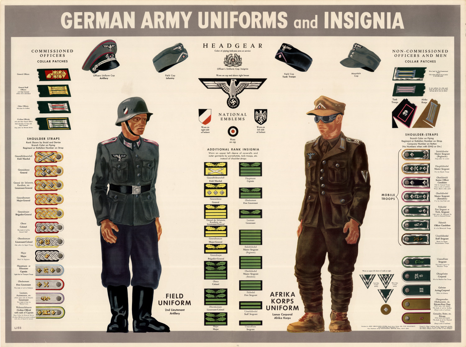 Color poster showing the insignia, patches, hats and uniforms of the German army. The poster features two figures: one is a German soldier wearing the blue field uniform and the other is a German soldier wearing the brown Afrika Korps uniform. Also depicted are the national emblems worn on headgear. Prepared by Military Intelligence Branch, Communication Coordination Division, Office of the Chief Signal Officer, in collaboration with Military Intelligence Service and Office of Naval Intelligence.